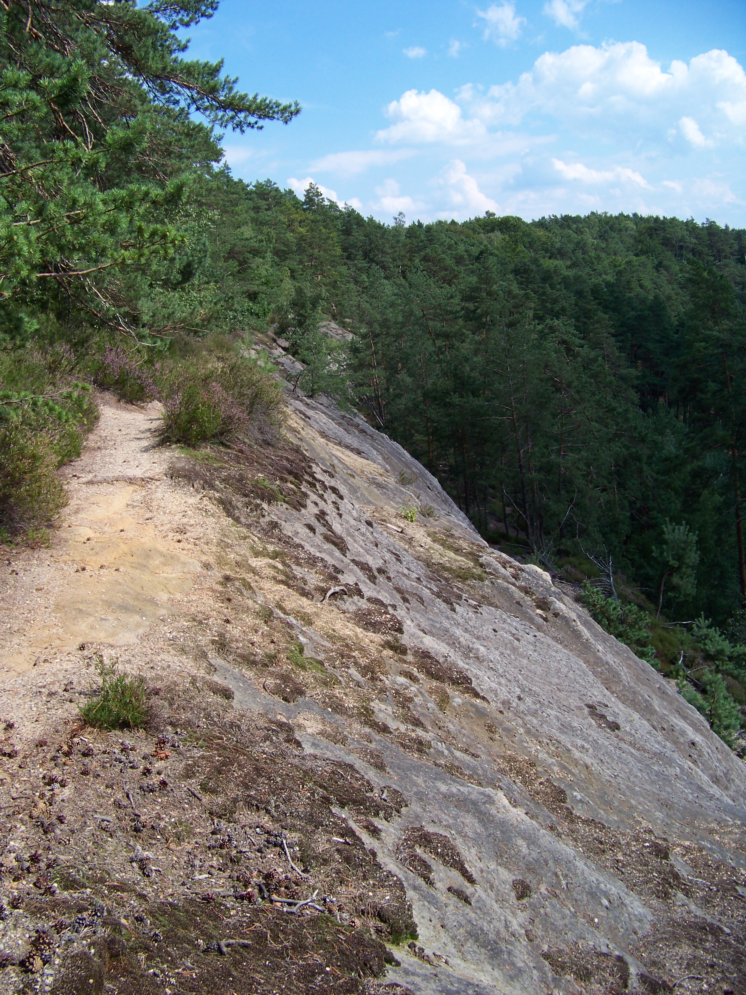 Martin Wall. Protected Landscape Area of Kokořínsko. (Cadastral area of Dřevčice, Česká Lípa District, Liberec Region, the Czech Republic.) - Google Maps - Google Earth